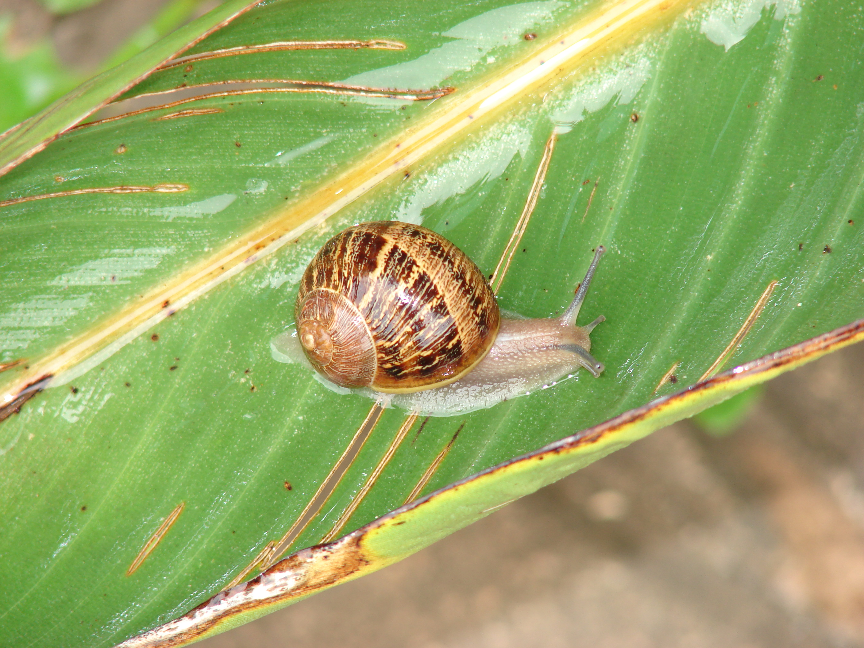 Photo of a garden snail Helix aspersa taken by myself in Potchefstroom, South Africa. The snail is on a Strelitzia leaf.